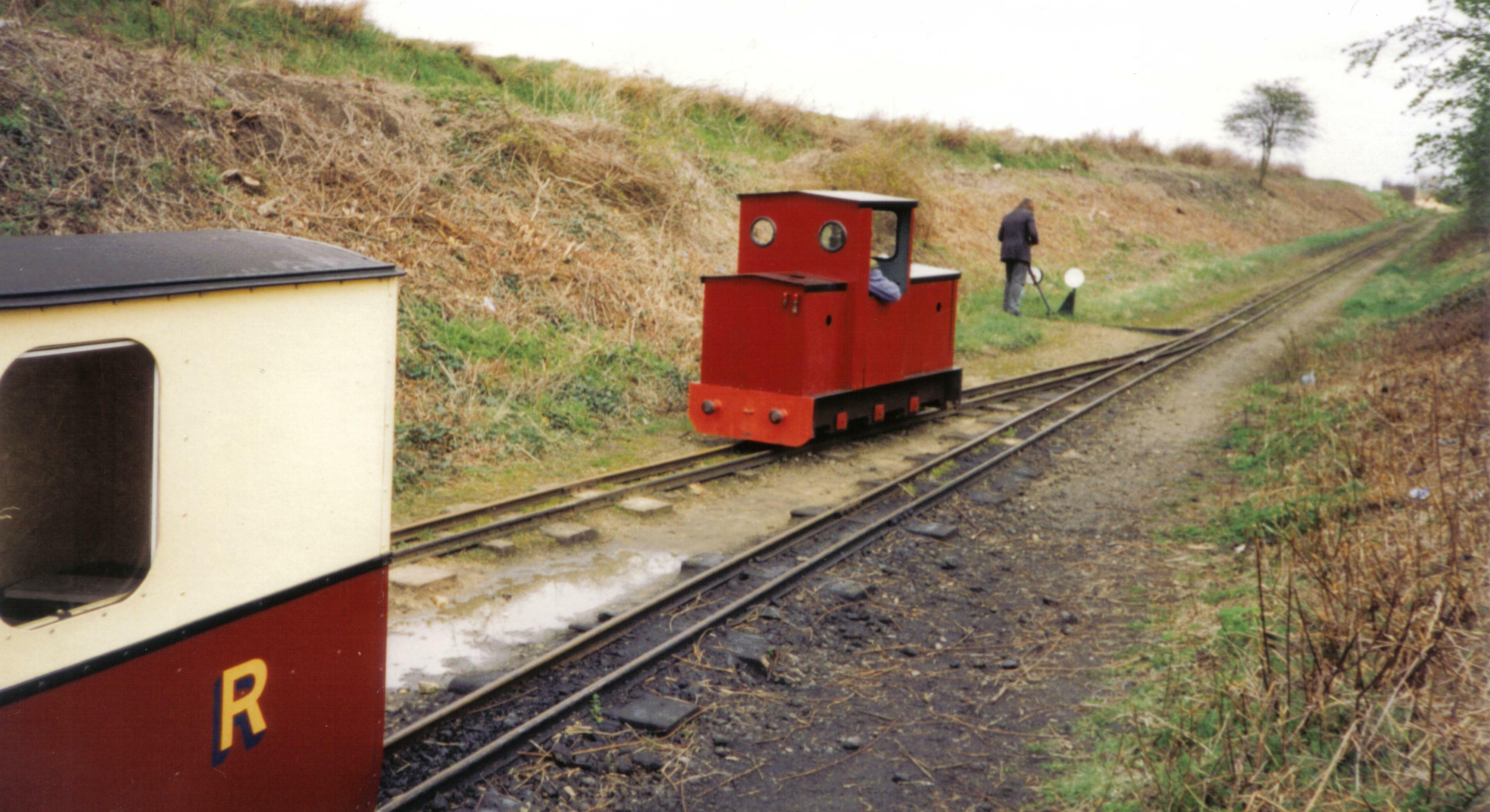 Walsingham station. Circa 1990s.